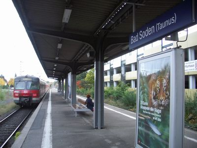 Picture of Bad Soden (Taunus) train station